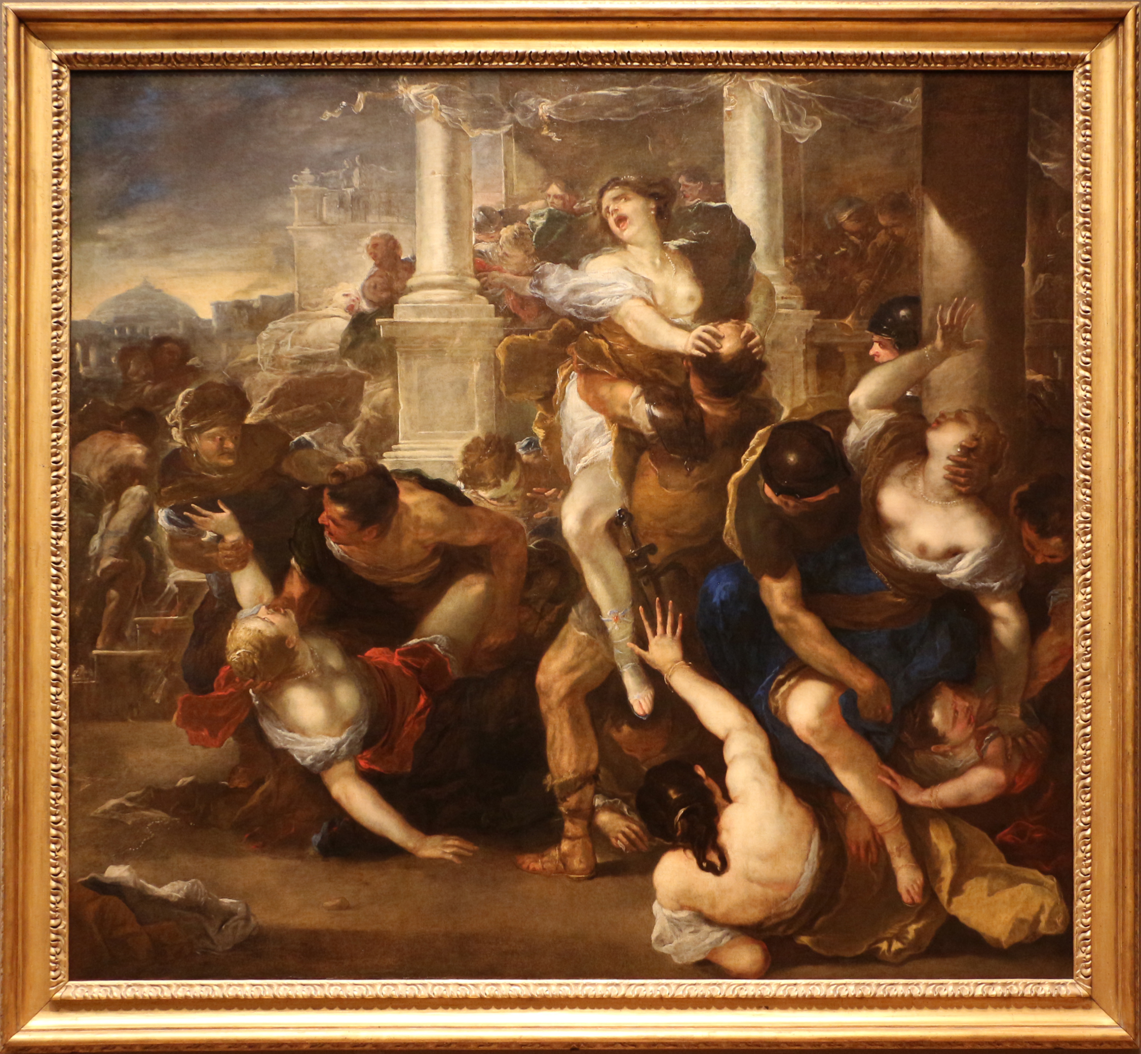 Italian paintings in the Art Institute of Chicago